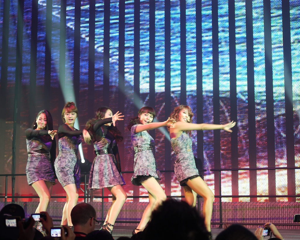 Wonder Girls performing "2 Different Tears" at seattle, EMP center